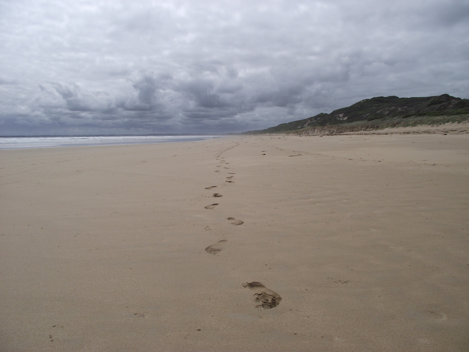 Venus Bay, Beach #4